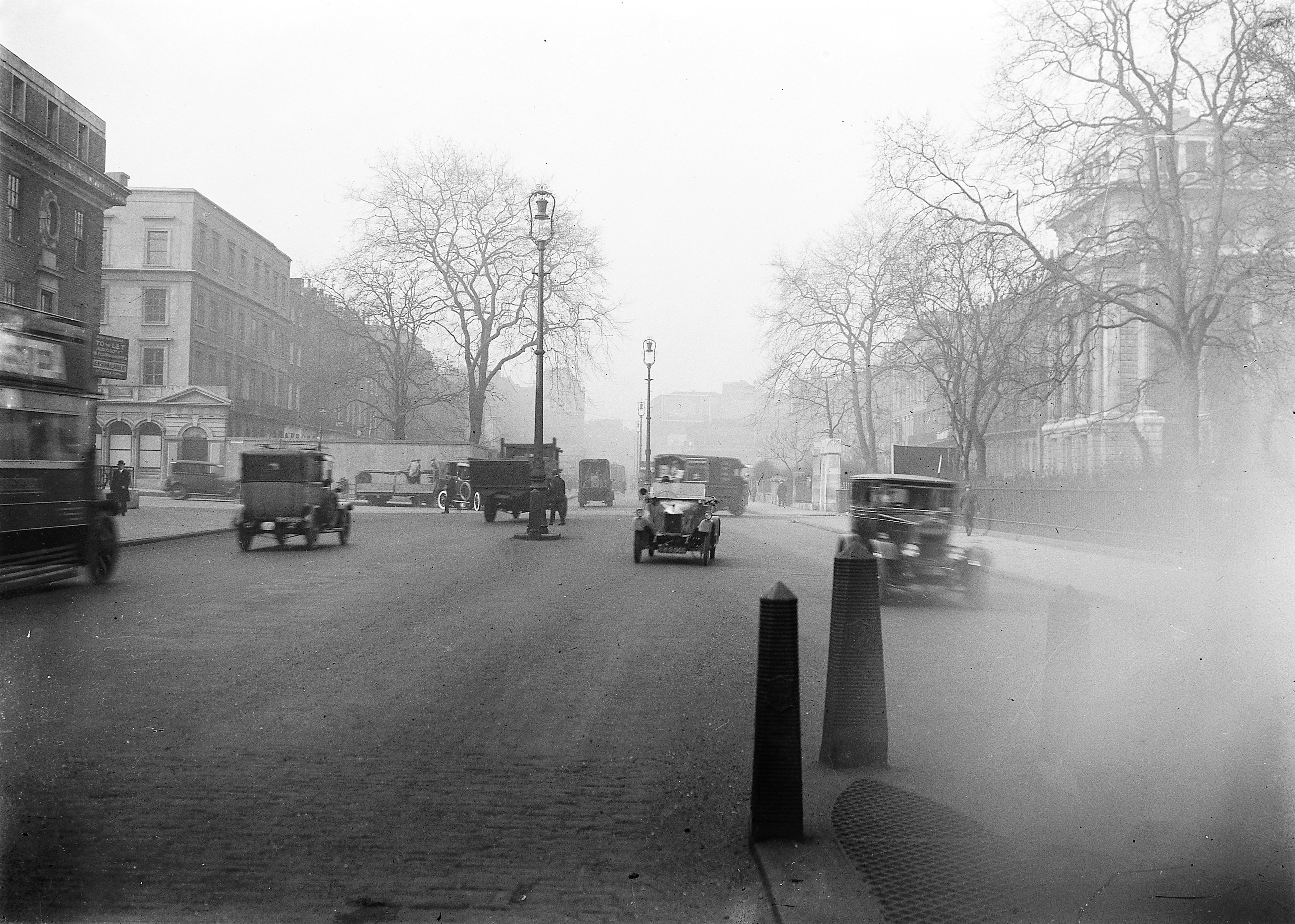 View of Euston Road, looking west. Wellcome Images Keywords: Wellcome Building